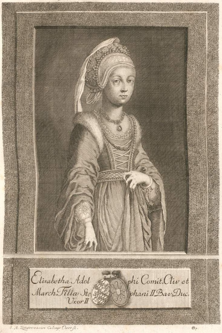 Elisabeth of Cleves (1378-1424), daughter of Adolf III of the Marck and wife of Stephen III of Bavaria. Work from: Series Imaginum Augustae Domus BoicaeThe Series Imaginum Augustae Domus Boicae, ad Genuina Ectypa Aliaque Monum Fide Digna delin. et Aaeri Incidit, Monachium (A Series of Portraits of the Noble House of Bavaria) is a genealogical series of portraits of members of the House of Wittelsbach engraved by Joseph Anton Zimmermann in 1773.